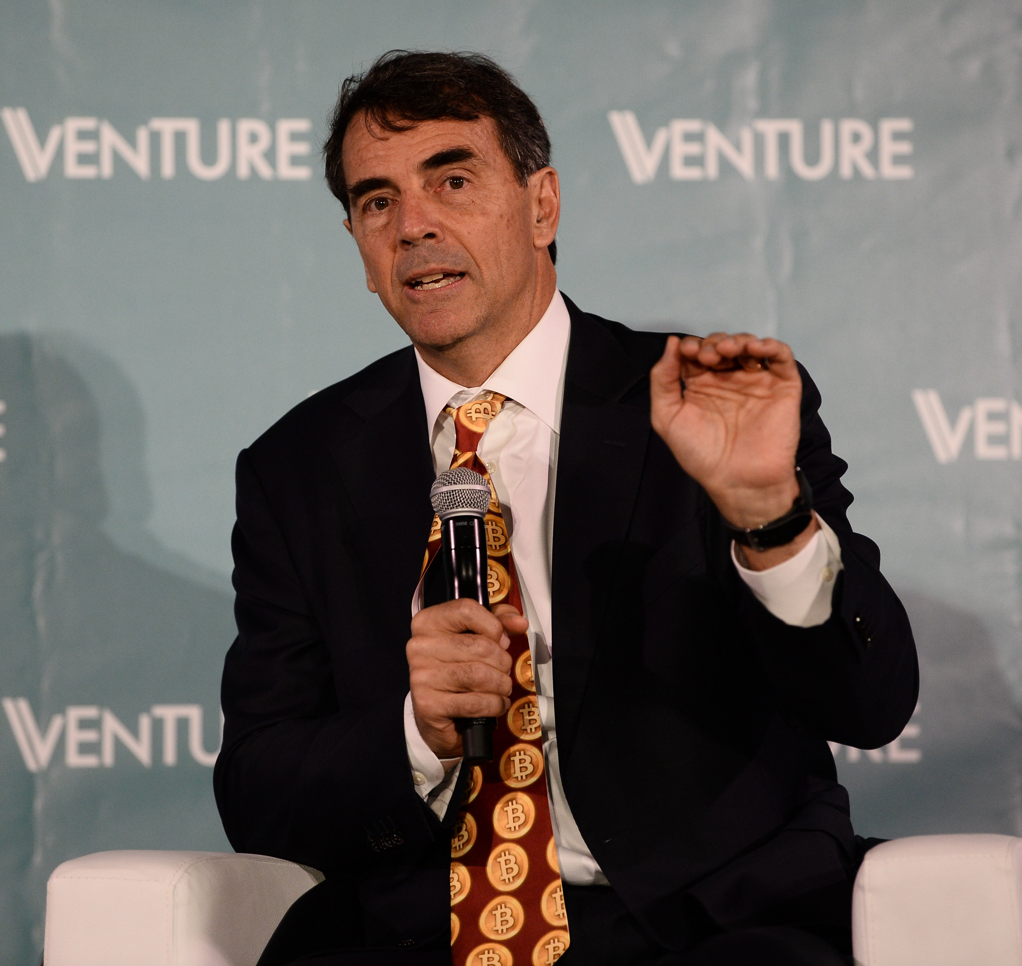 6 November 2017; Tim Draper, DFJ, at Venture Summit Content during Web Summit 2017 at Convento De Beato in Lisbon. Photo by Diarmuid Greene/Web Summit via Sportsfile